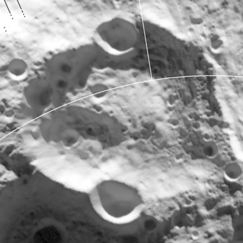 Nobile Crater with "dragon head" - like feature as imaged by Diviner.